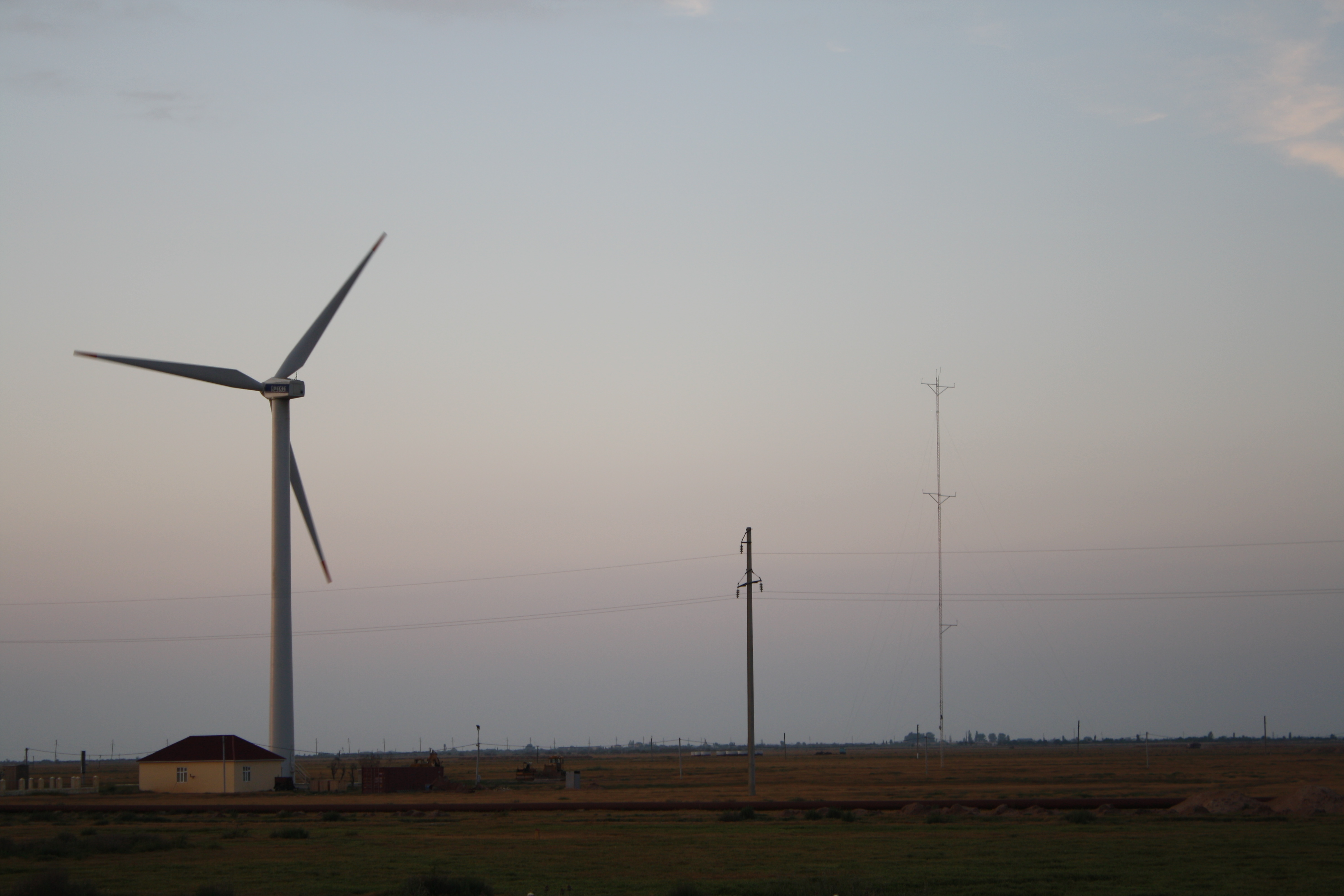 Wind power station. Azerbaijan. Ветряная электростанция. Азербайджан